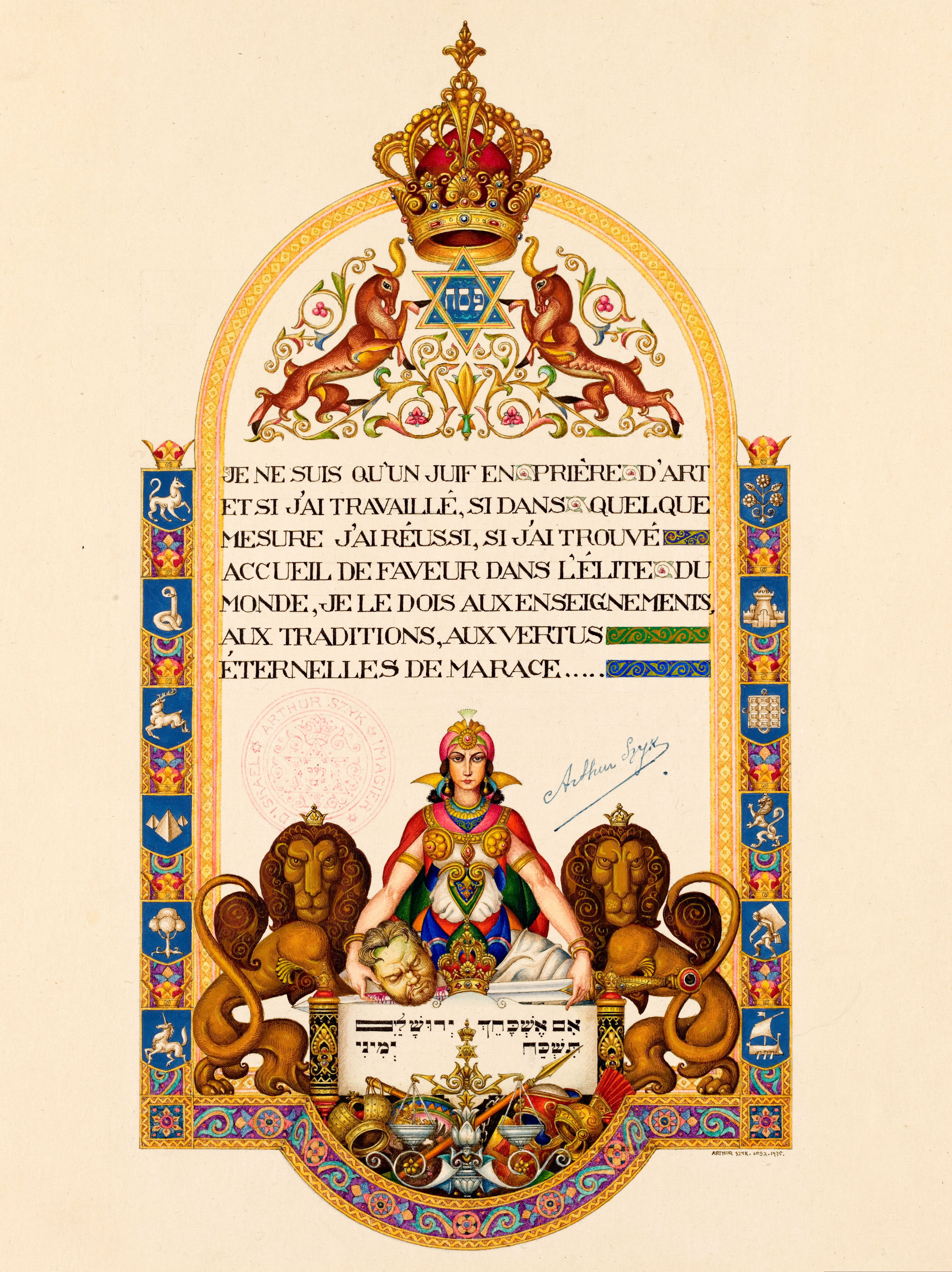 Arthur Szyk originally intended his Passover story of persecution and deliverance (told through the traditional text of the Haggadah) to be a strong statement against the Nazis, but no publisher in his native Poland dared take on a project with strong anti-Nazi iconography. He ultimately found a publisher in England. This French-language dedication page--which shows the ancient Jewish heroine Judith with the head of the villain Holofernes--reads: "I am but a Jew praying in art; if I have succeeded in any measure, if I gained the power of reception among the elite of the world, then I owe it all to the teachings, traditions and eternal virtues of my People.”